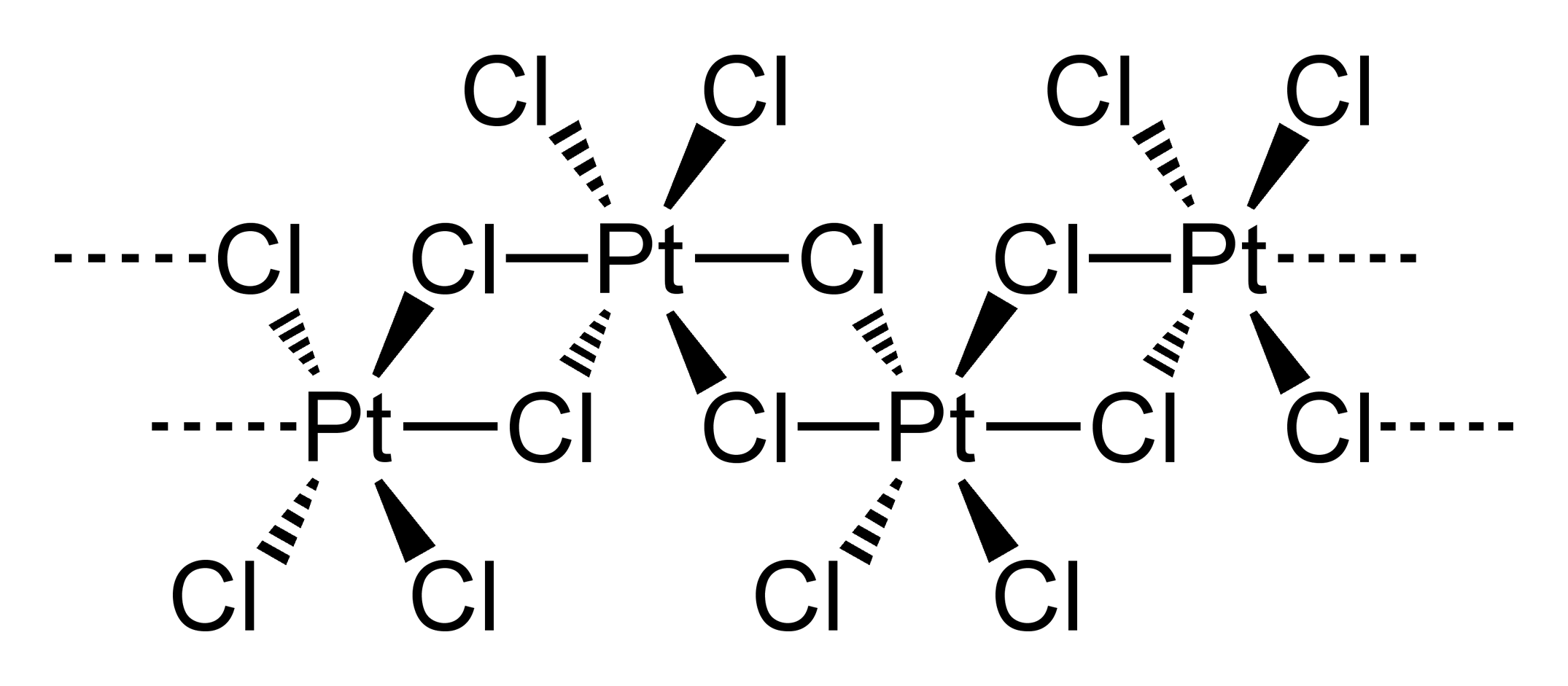 Structural formula of polymeric platinum(IV) chloride, PtCl4, as found in the crystal structure. Structure drawn in ChemBioDraw Ultra 12.0.